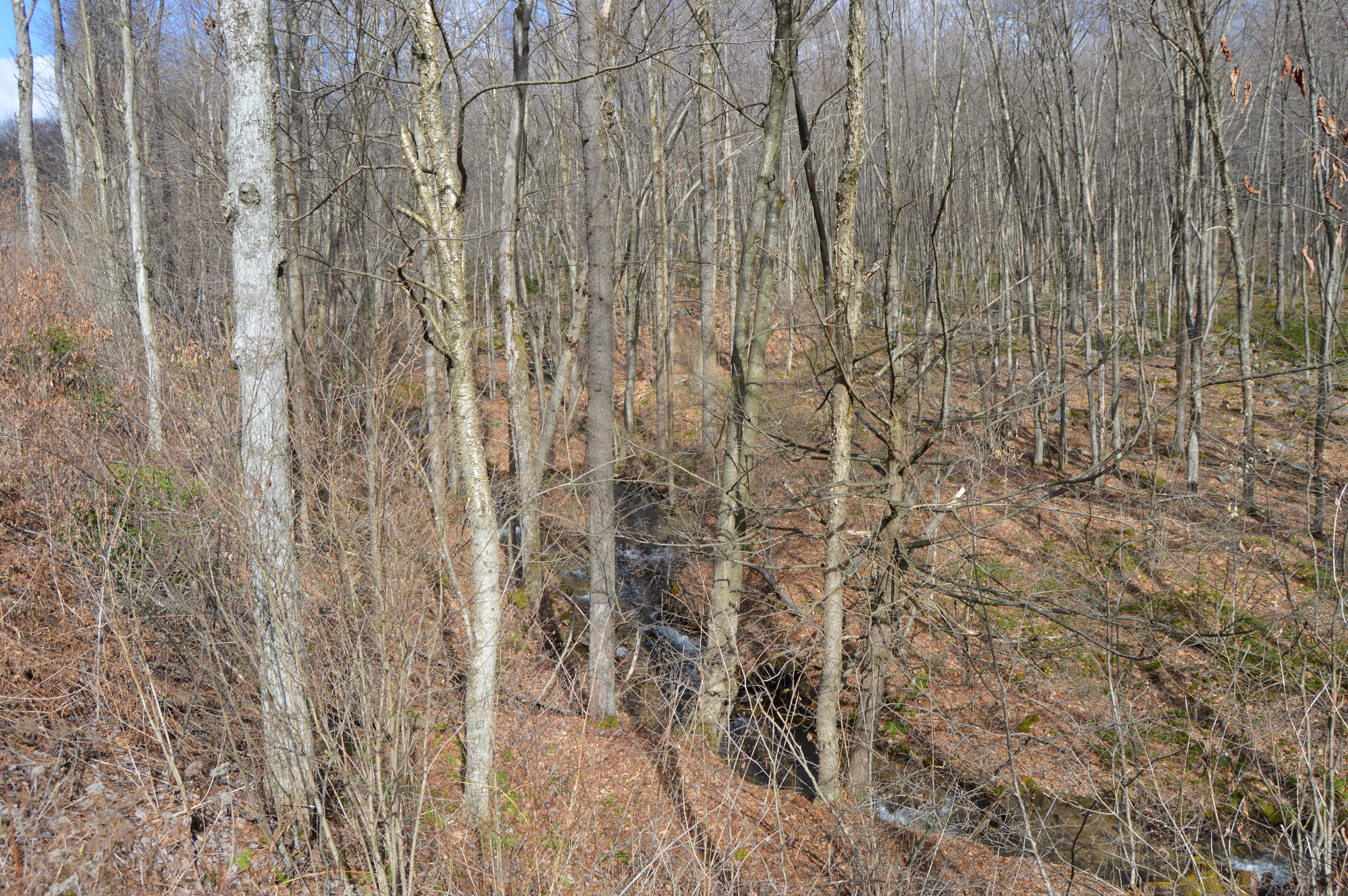 Waterfalls in a small stream, Belvidere Run, seen looking north from Hallton-Belltown Road in eastern Millstone Township, Elk County, Pennsylvania, United States. This location is included within Pennsylvania State Game Lands #28 and the Allegheny National Forest.